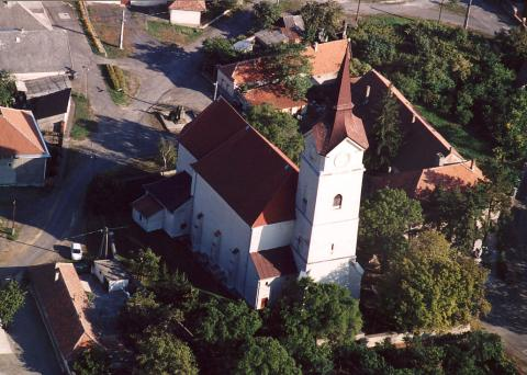 Tállya, Hungary, aerialphotography